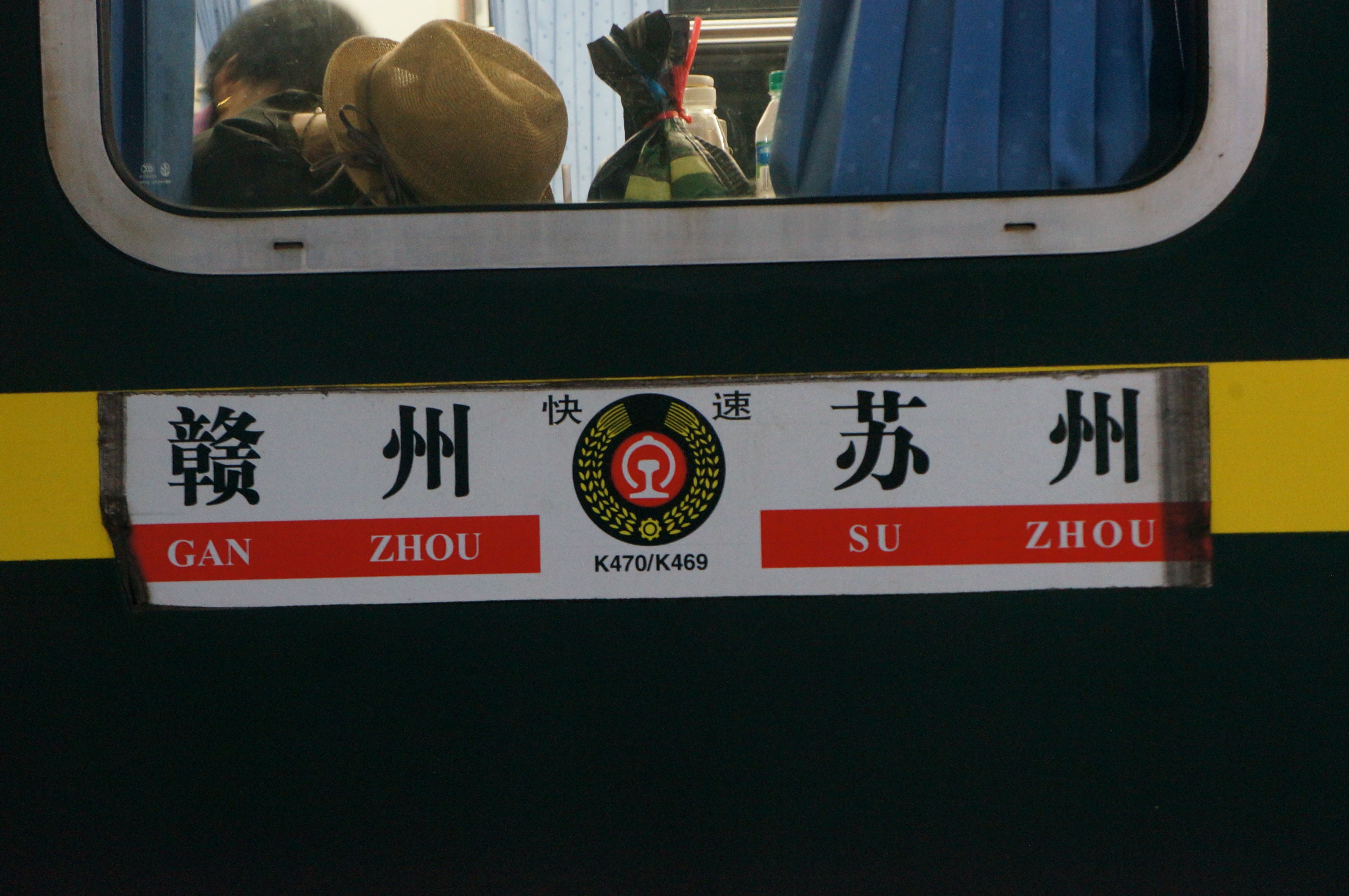 K469 470 infoboard in 201708